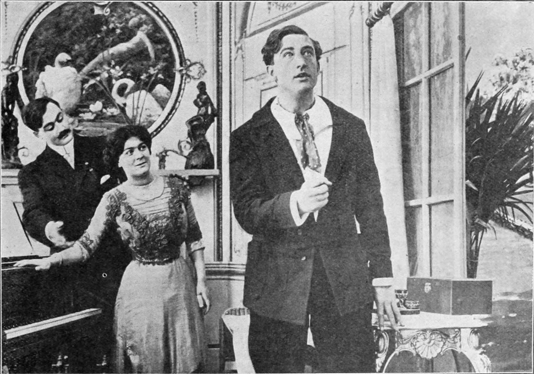 From context I believe this is a scene from the film "His Friend's Wife" as depicted in a contemporary magazine